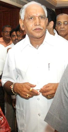 Former CM of Karnataka B. S. Yeddyurappa